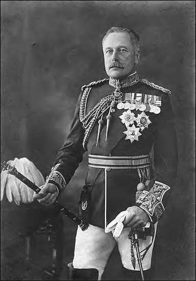 Field Marshal Earl Haig (1861-1928), the Commander-in-Chief of the British forces during the First World War